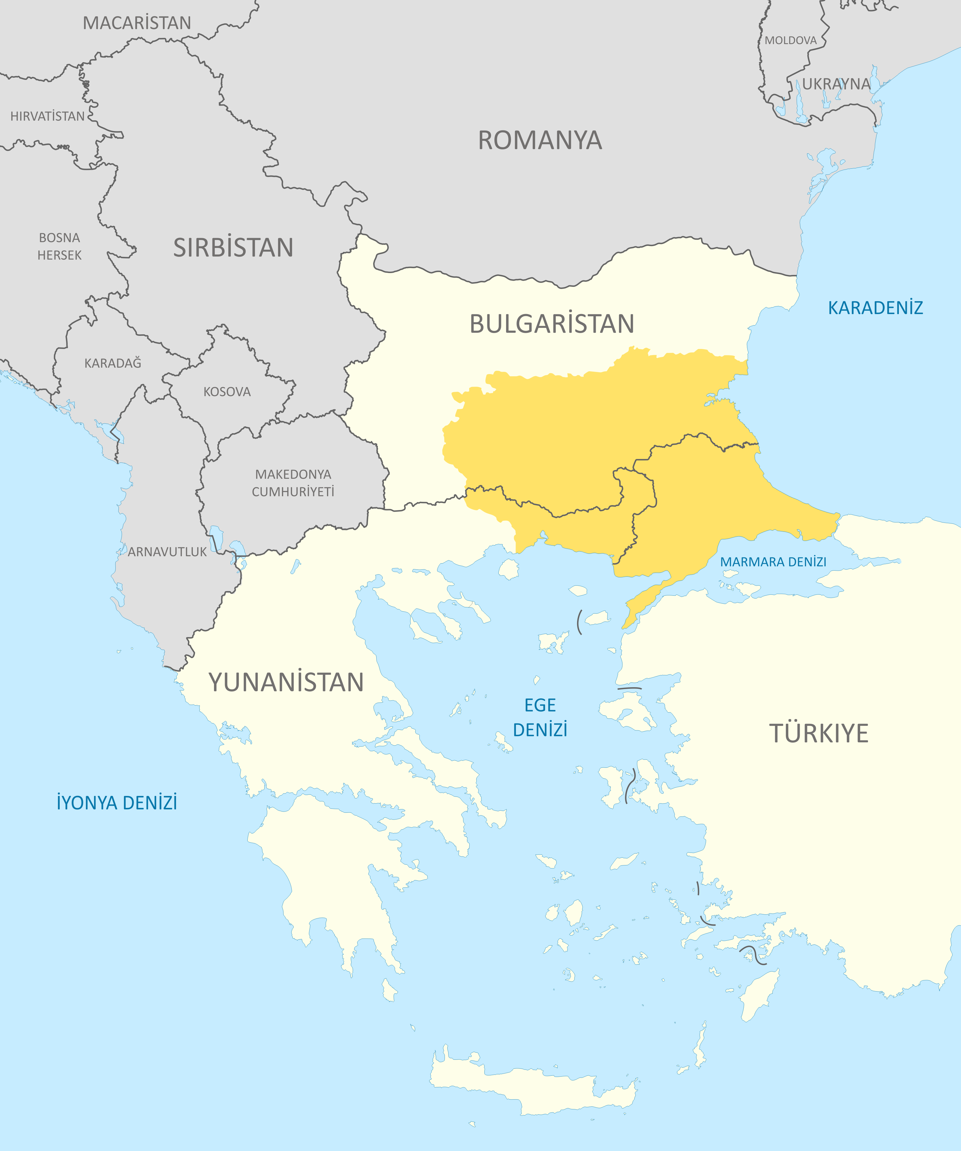 Thrace modern state boundaries